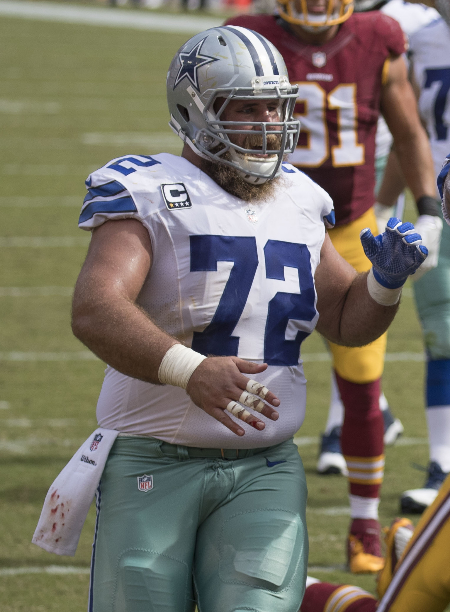 Cowboys at Redskins 9/18/16